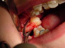 Surgical extraction of an impacted molar. Source: National Institute of Dental and Craniofacial Research (NIDCR).